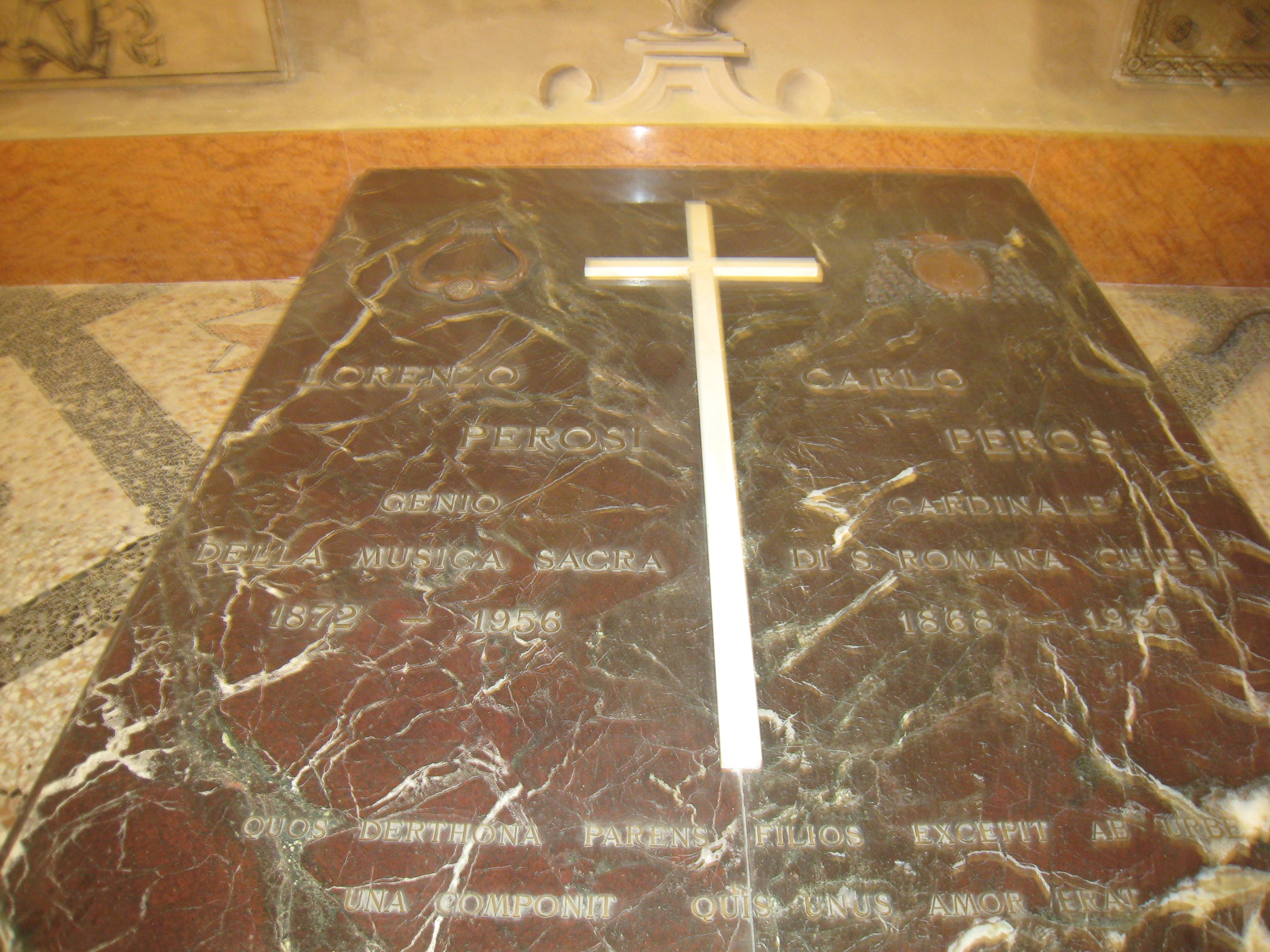 Lorenzo Perosi and Carlo Perosi's grave in Tortona Cathedral.